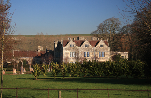 Stockton House Stockton House stands in its own park land, and dates from the 1580s when it was built for John Topp. It underwent alterations by Jeffry Wyattville in 1802, and was restored and altered during 1877-82 by Benjamin and B. J. Ferrey. A Grade I Listed country house.